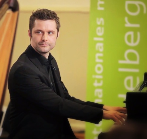 Composer Friedrich Heinrich Kern presenting at Heidelberg Spring Festival, 2013.